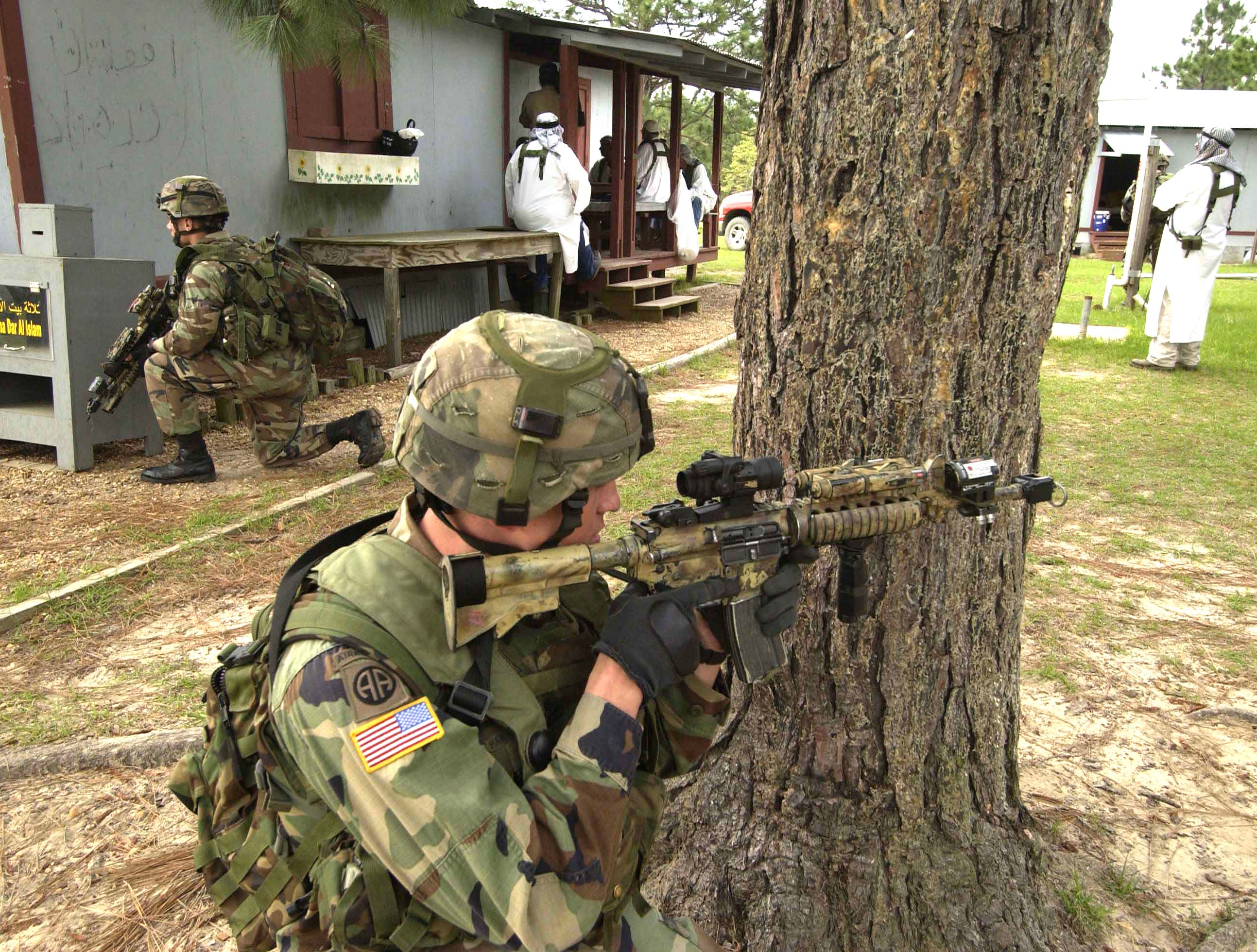 Spc. Alexander Sheffield, from the 505th Parachute Infantry Regiment, 82nd Airborne Division, and a fellow soldier participate in an exercise in a simulated Iraqi village at the Joint Readiness Training Center, Fort Polk, Louisiana, in preparation for an upcoming deployment to Iraq.